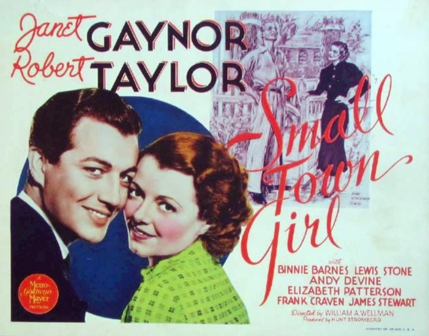 Lobby card for the 1936 film Small Town Girl.